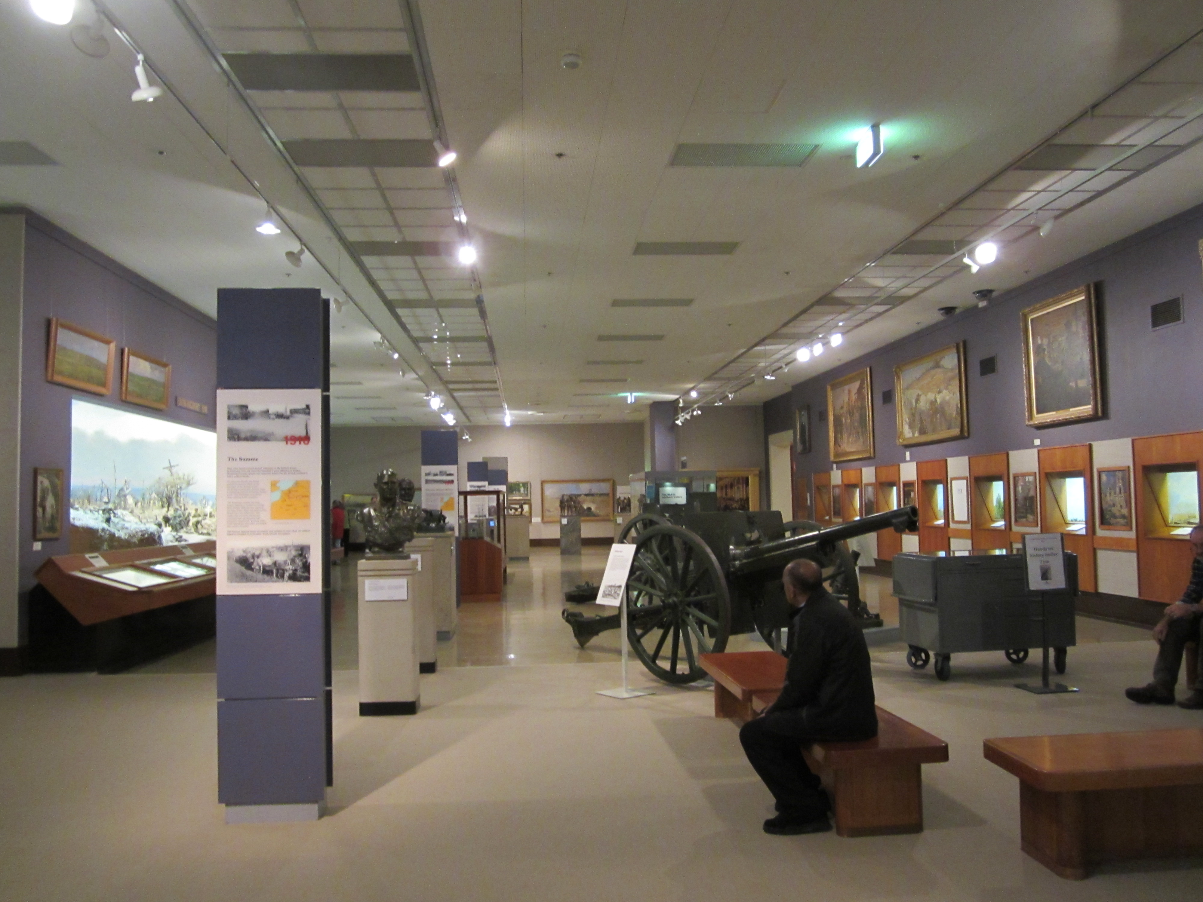 General view of the Australian War Memorial's main Western Front gallery in August 2012 (looking from north to South)